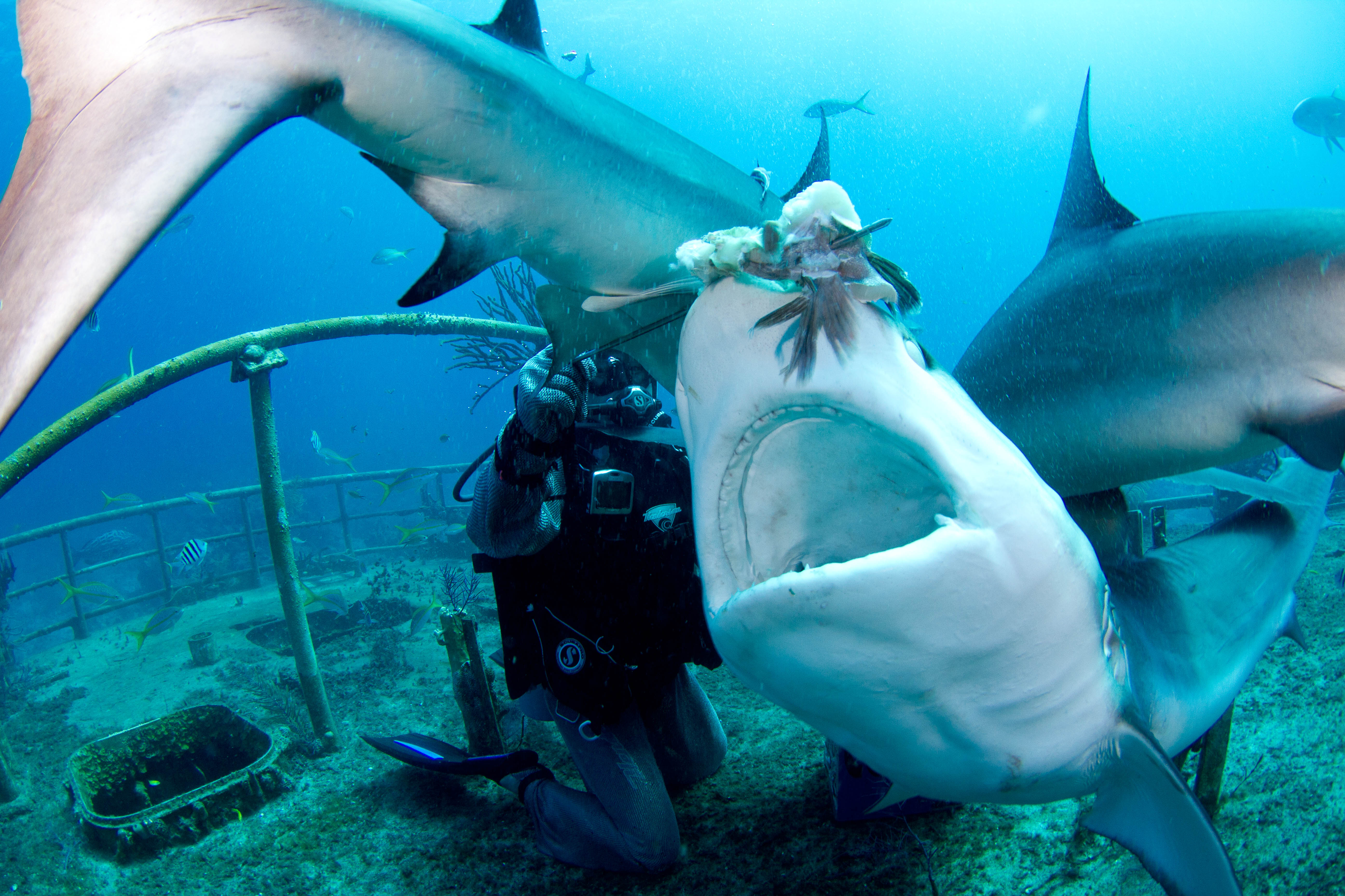 Caribbean reef shark (Carcharhinus perezi) being fed by a diver in the Bahamas.